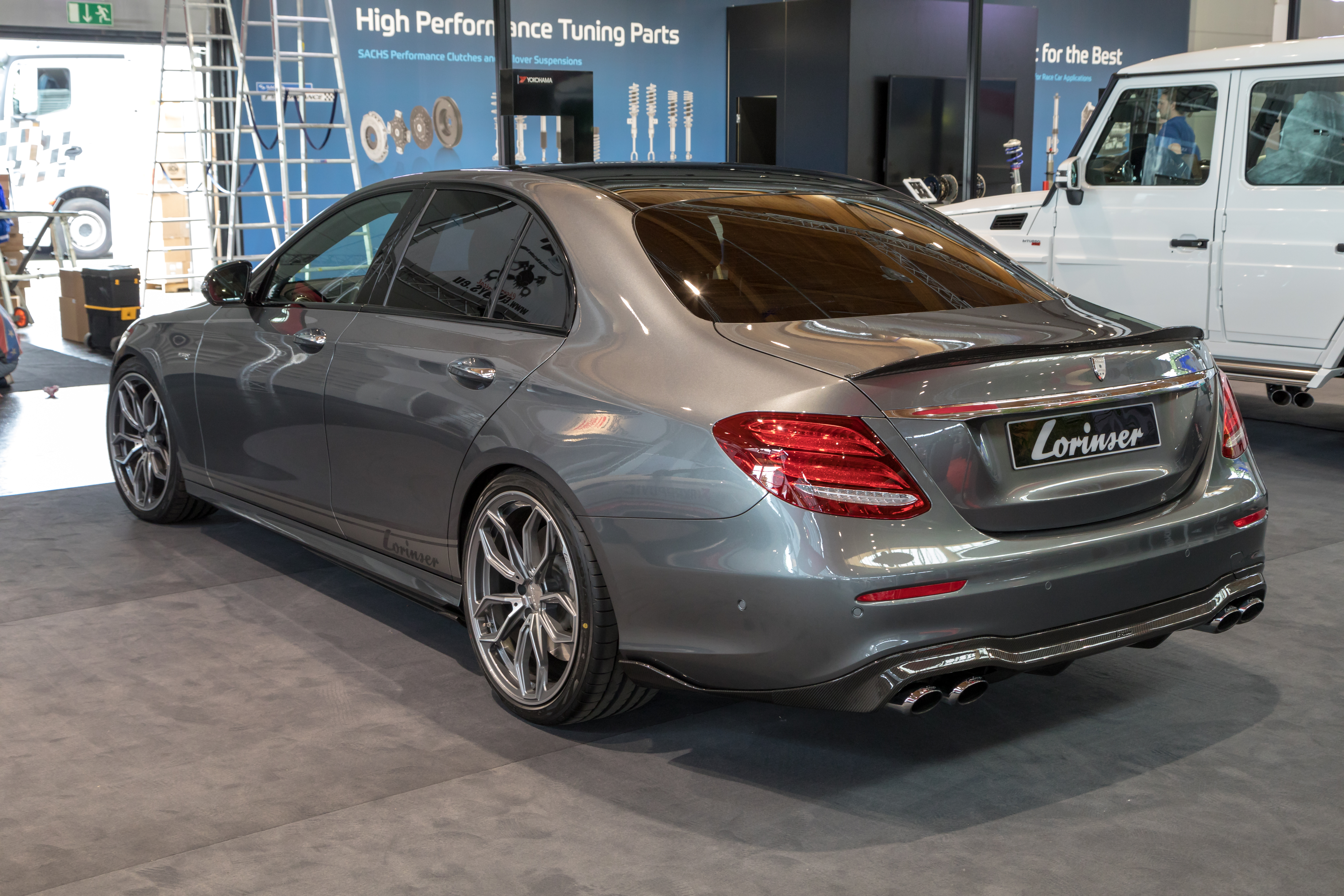 Tuning World Bodensee 2018